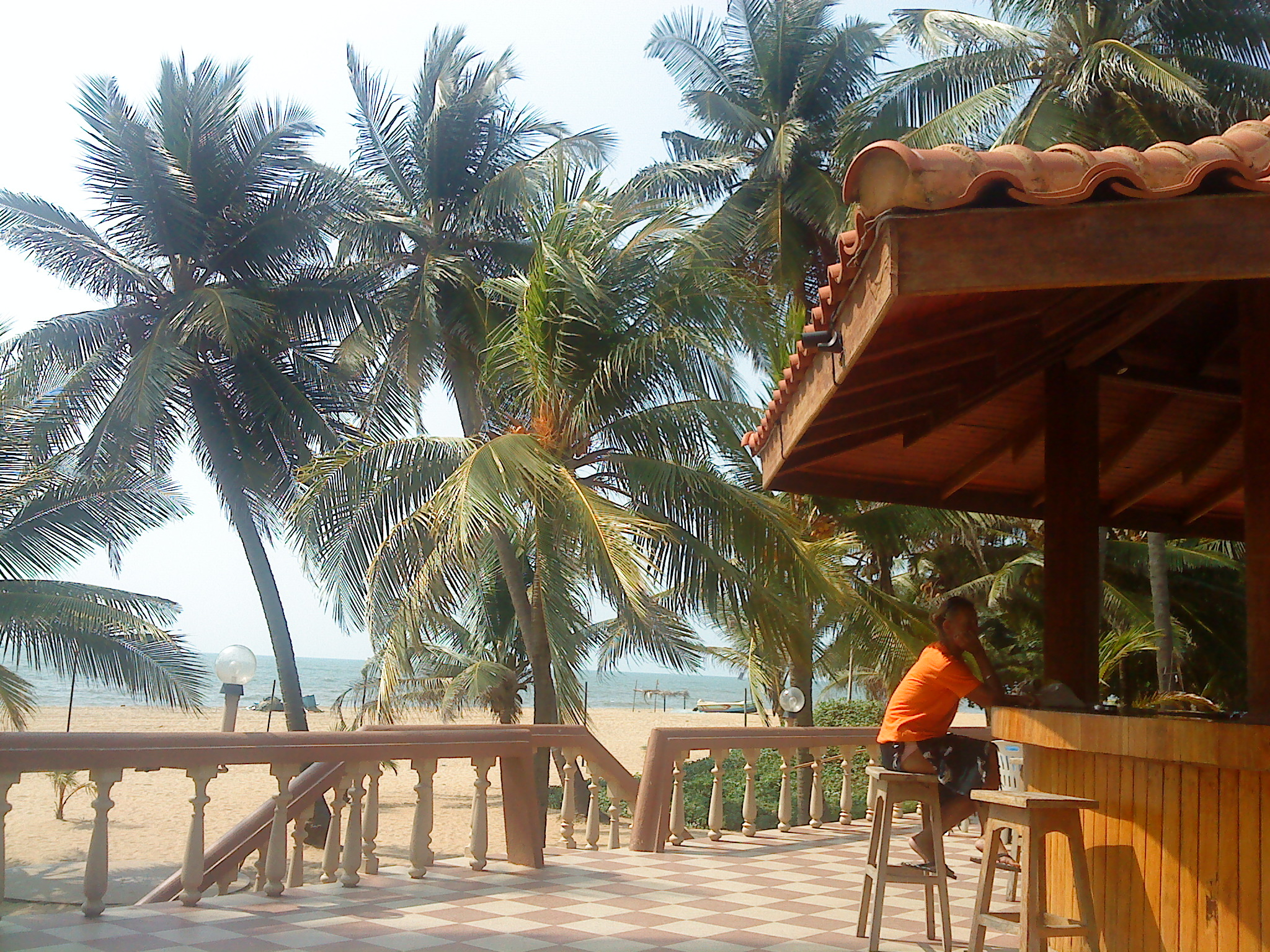 Palms in the sun in Negombo, Sri Lanka